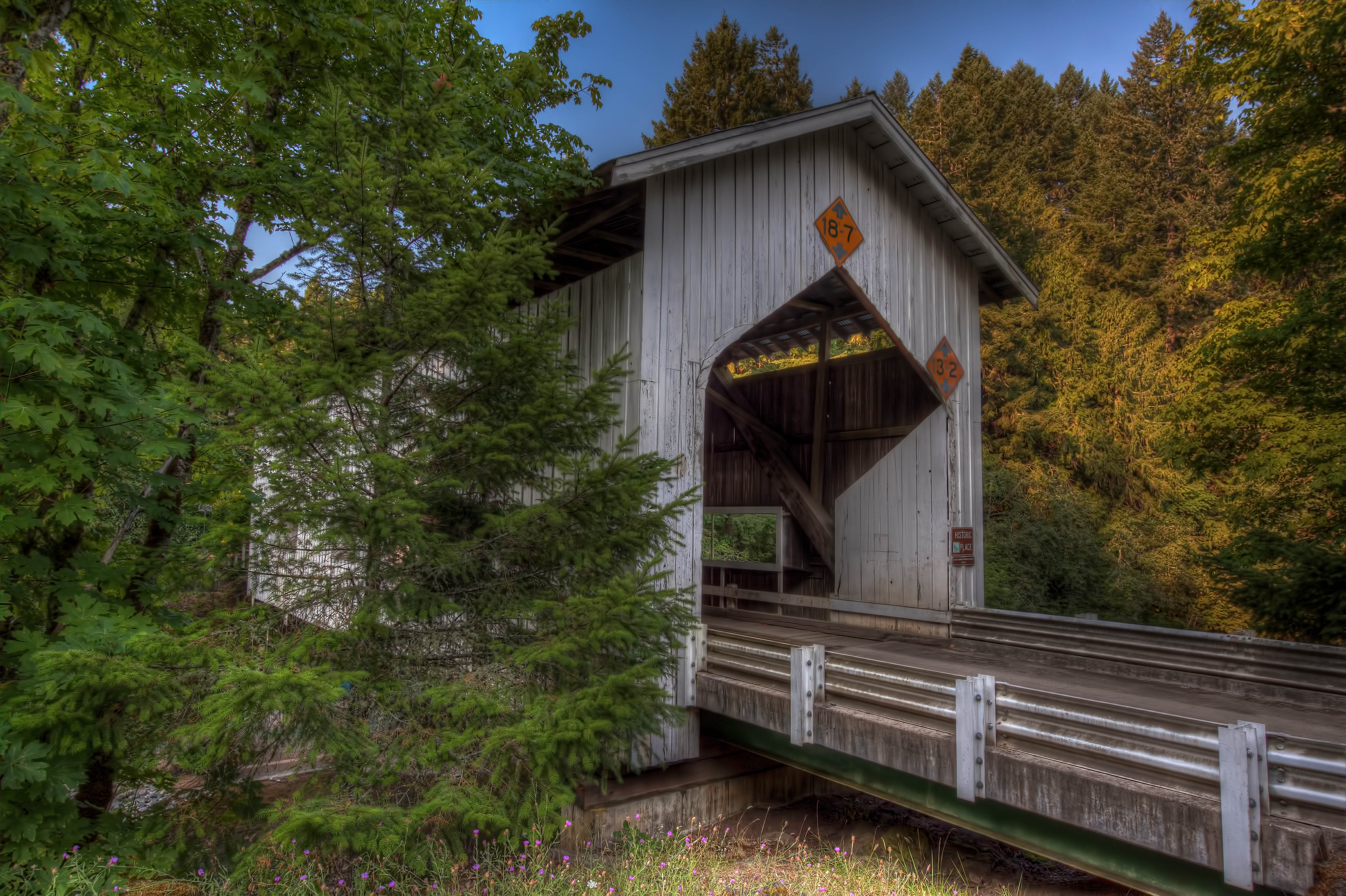 The Cavitt Creek Bridge, crossing Little River at the junction with Cavitt Creek, is another of the wooden structures built by Floyd Frear, noted Douglas County builder. The design features Tudor arch portals to accommodate heavy log truck usage, and the upper and lower chords utilize raw logs as its members. Each side of the roofed structure sports three windows, and long narrow slits above each truss allow "daylighting" as well as ventilation for the bridge interior. The bridge has a metal roof and a floor with longitudinal running planks. The covered structure sits on concrete piers. The area surrounding the bridge site was settled in the early 1880's and named for Robert Cavitt, who settled on a tributary of Little River. This covered bridge was included in the thematic nomination of Oregon's covered bridges to the National Register in 1979, but was not listed at the request of the County.